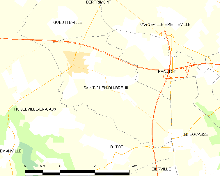 Map of French municipality Saint-Ouen-du-Breuil